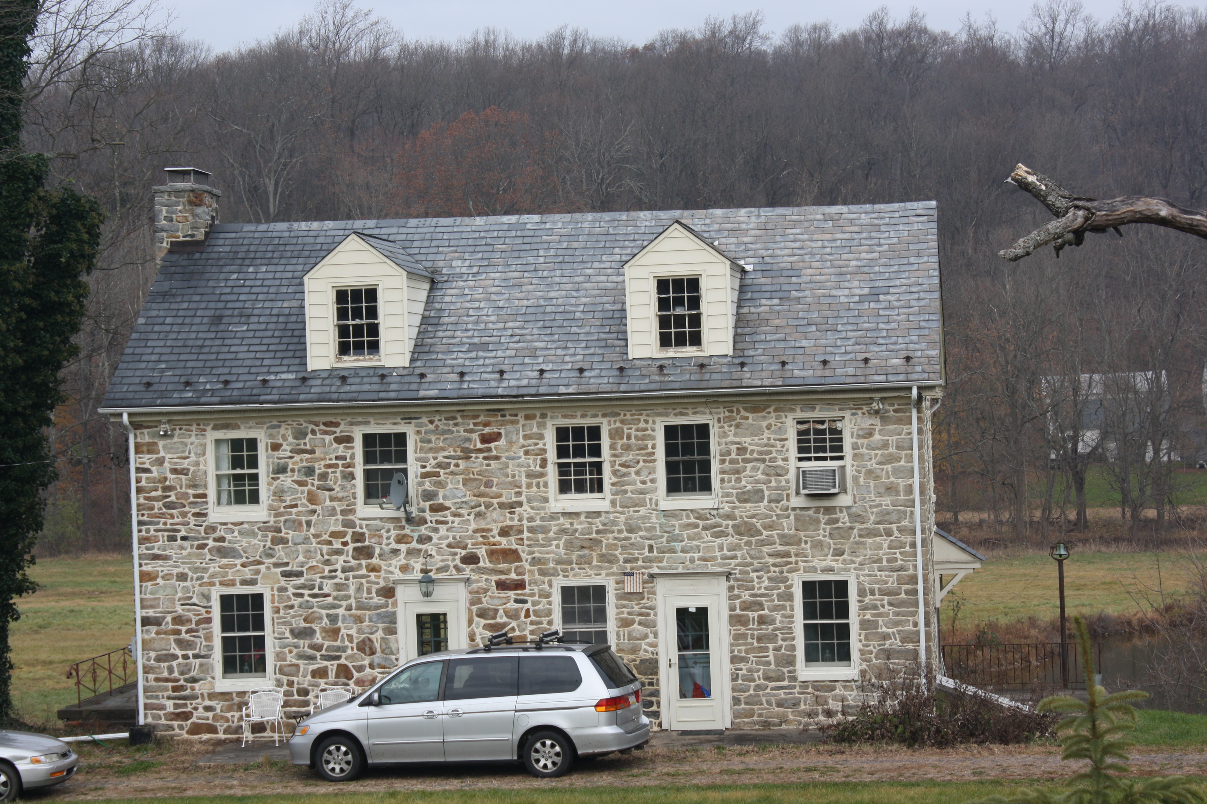 Jacob Funk House and Barn is a historic home located at Springfield Township, Bucks County, Pennsylvania. House, view from Route 212. Object location40° 33′ 32″ N, 75° 16′ 04″ W